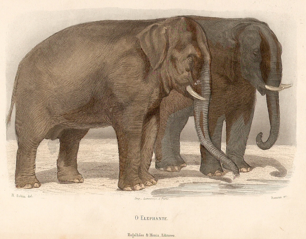 Hand-coloured engraving drawn by H.Gobin and engraved by Ramus - Printed in France by the "Lamoureaux de Paris"